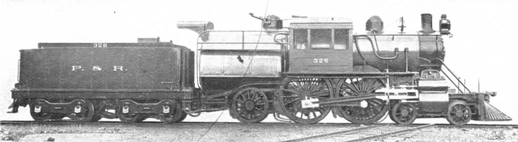 Philadelphia and Reading Railway. One of the large Vauclain Compound "Atlantics" engaged in the fastest Regular Service in the World.